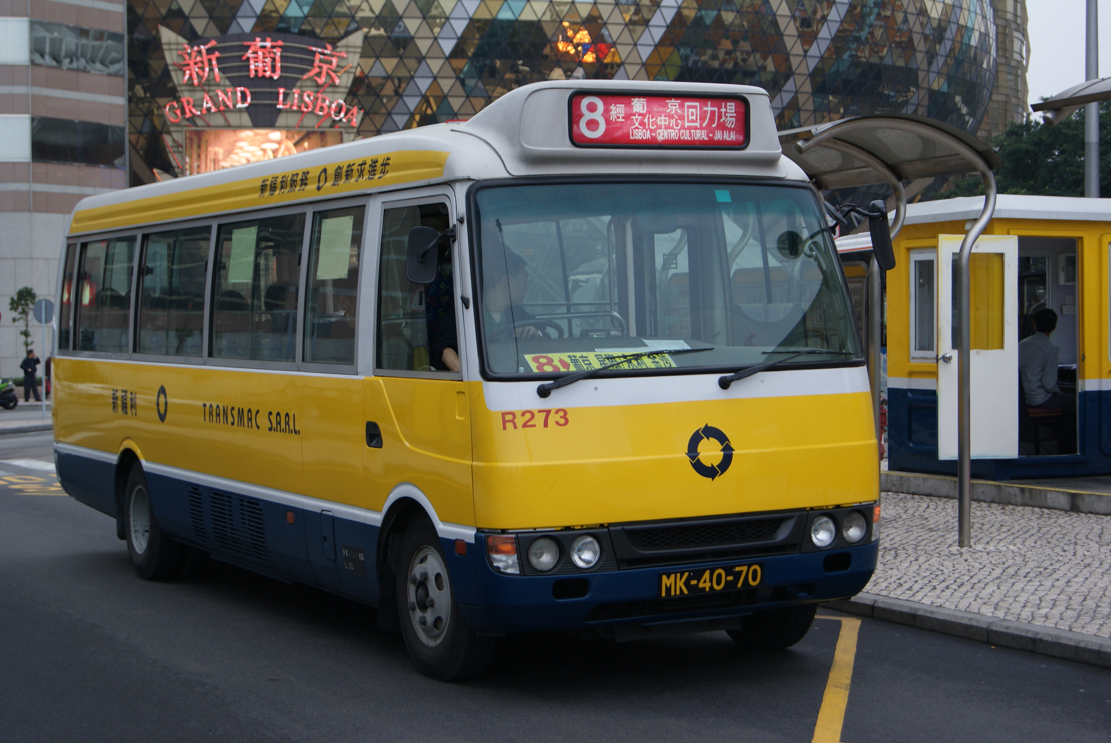 Transmac R273 at Line 8